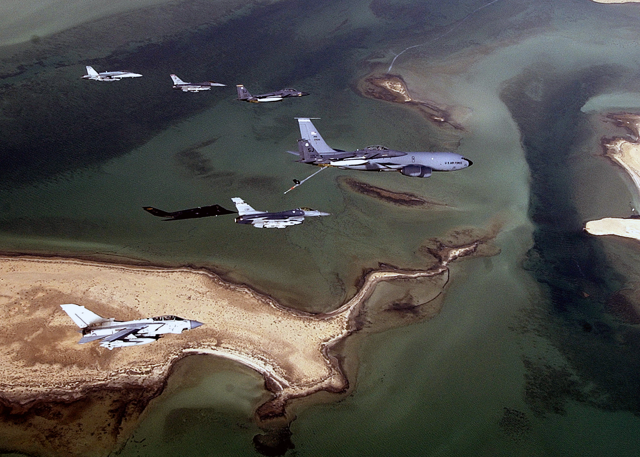 South West Asia (Apr. 14, 2003) -- Aircraft of the 379th Air Expeditionary Wing and coalition counterparts stationed together in a deployed location in southwest Asia fly over the desert. Aircraft include KC-135R Stratotanker, F-15E Strike Eagle, F-117A Nighthawk, F-16CJ Fighting Falcon, British GR.4 Tornado, and Australian F/A-18 Hornet.